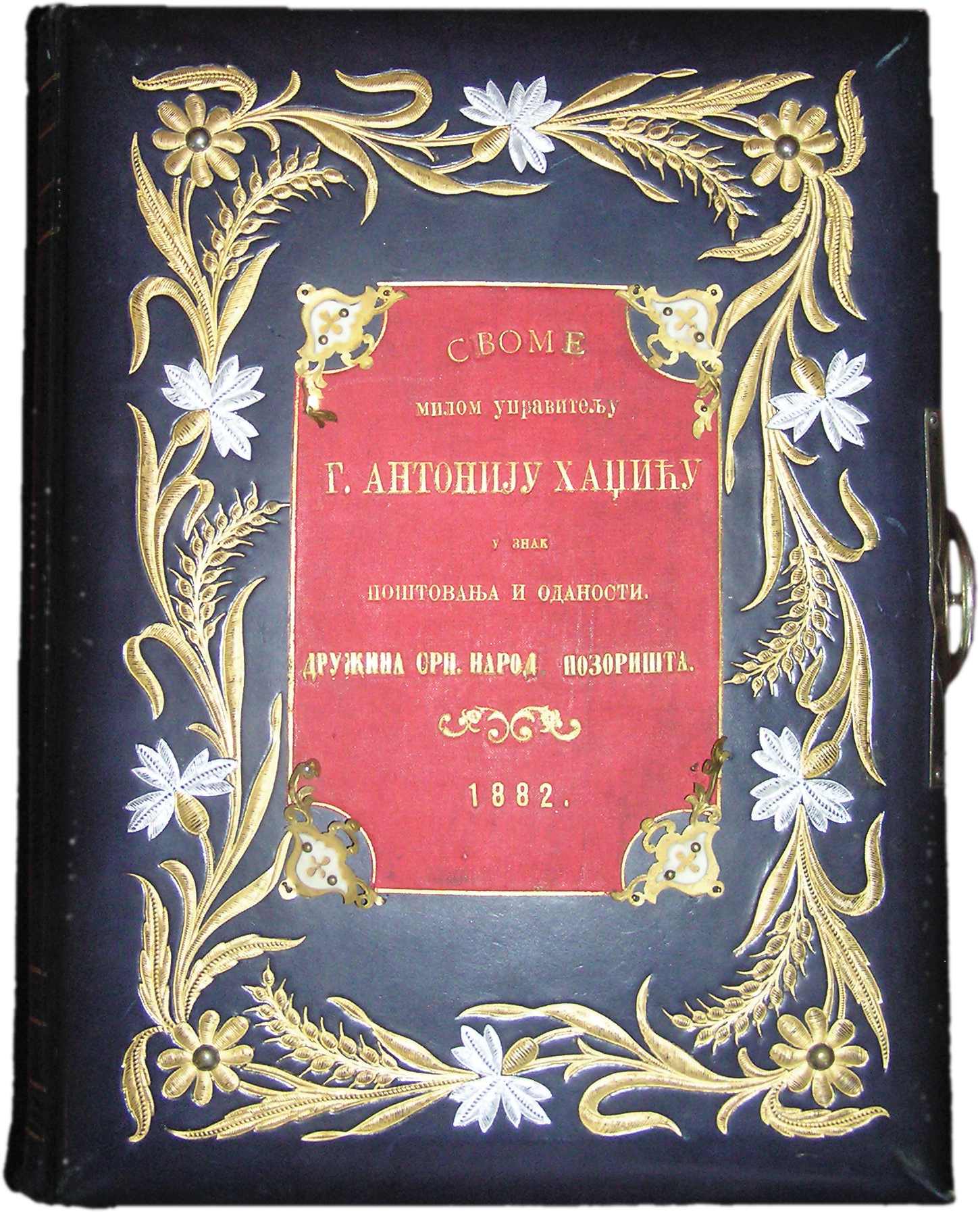 Leather cover of Memorial Album which actors of Serbian National Theatre gifted to their manager Antonije Tona Hadžic, 1882 Srpski (latinica): U kožnom povezu naslovna korica Spomen-albuma koji su glumci Srpskog narodnog pozorišta poklonili svom upravniku Antoniju Toni Hadžiću, 1882. Српски (ћирилица): У кожном повезу насловна корица Спомен-албума који су глумци СНП-а поклонили свом управнику Антонију Тони Хаџићу, 1882.